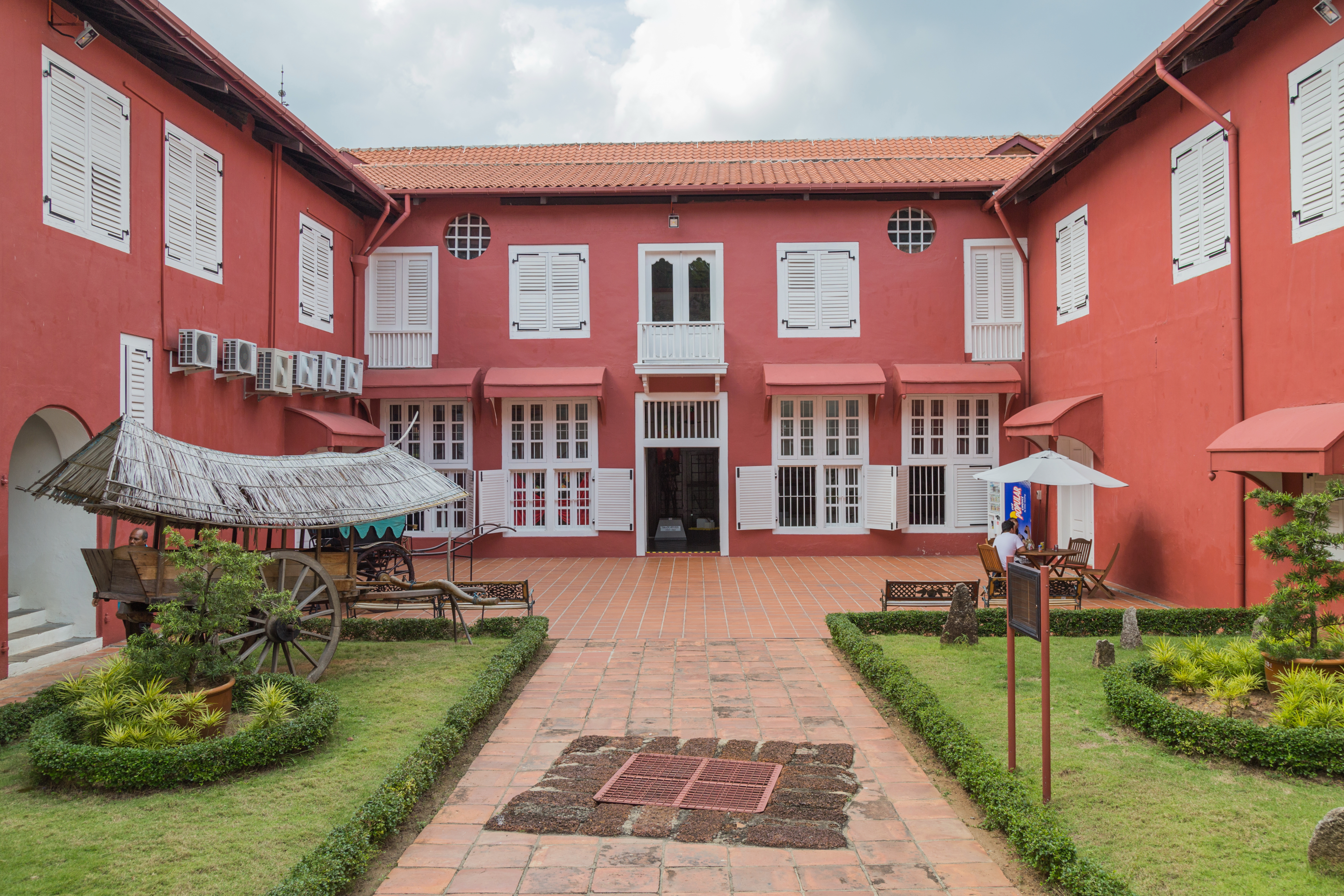 Stadthuys. Malacca City, Malacca, Malaysia.